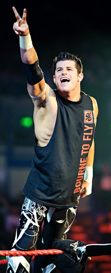 Wrestler Matthew Joseph Korklan, better known by his ring names Matt Sydal and Evan Bourne.